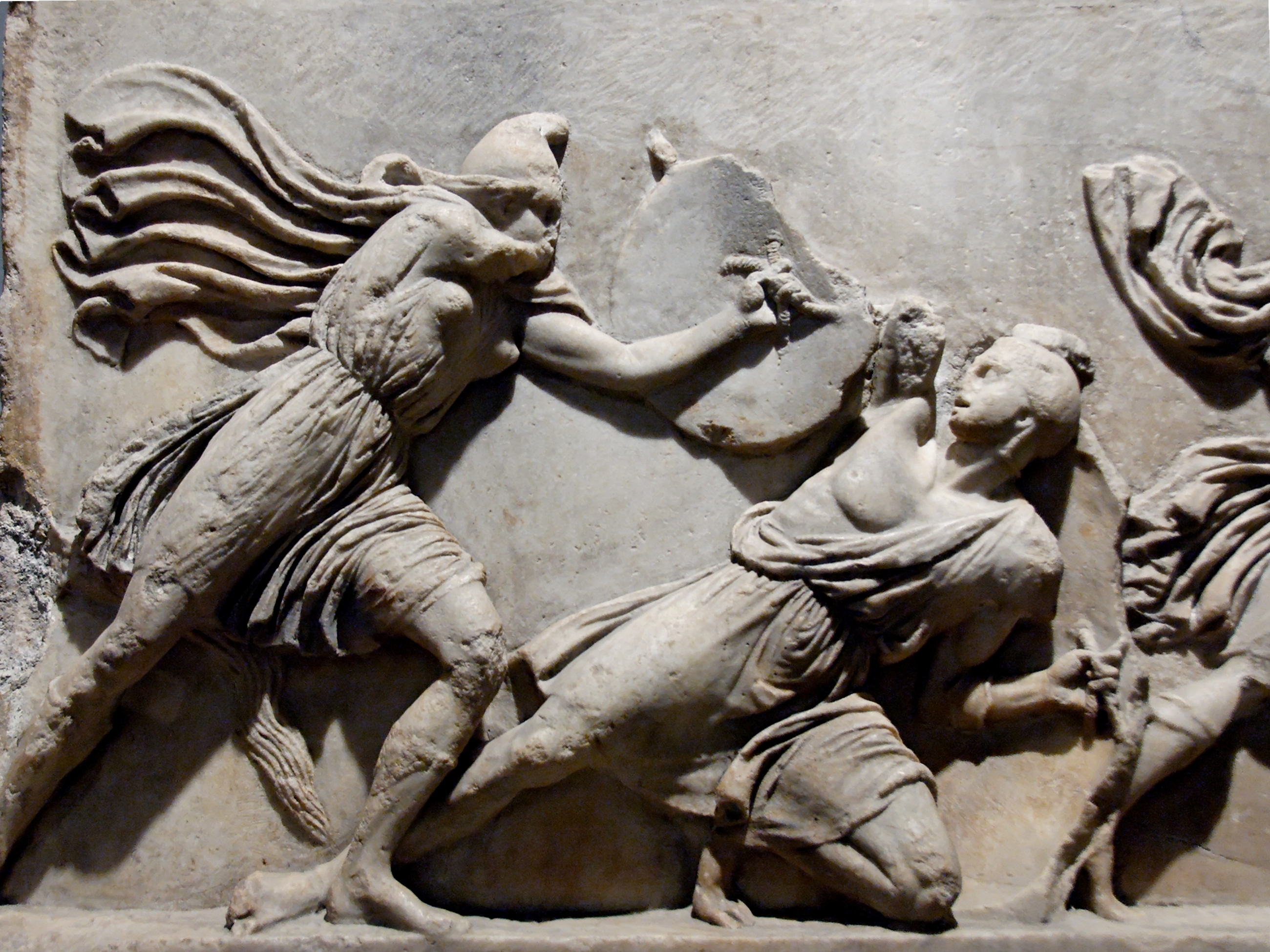 Amazonomachy. Block from the frieze running around the top of the podium of the Mausoleum at Halicarnassos.